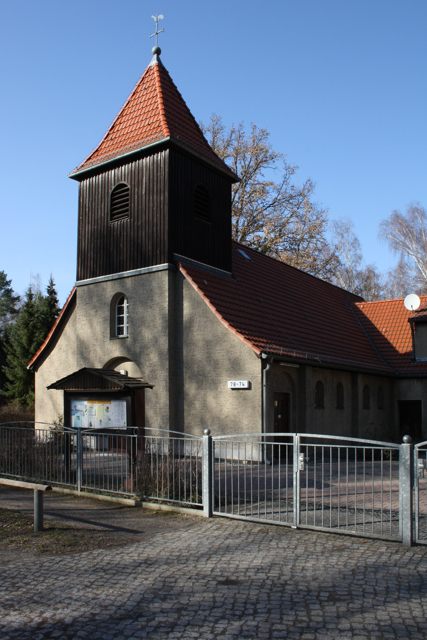 The Church of the Maternity of the Blessed Virgin Mary, short St. Mary's Church in Heiligensee (a locality of Berlin).